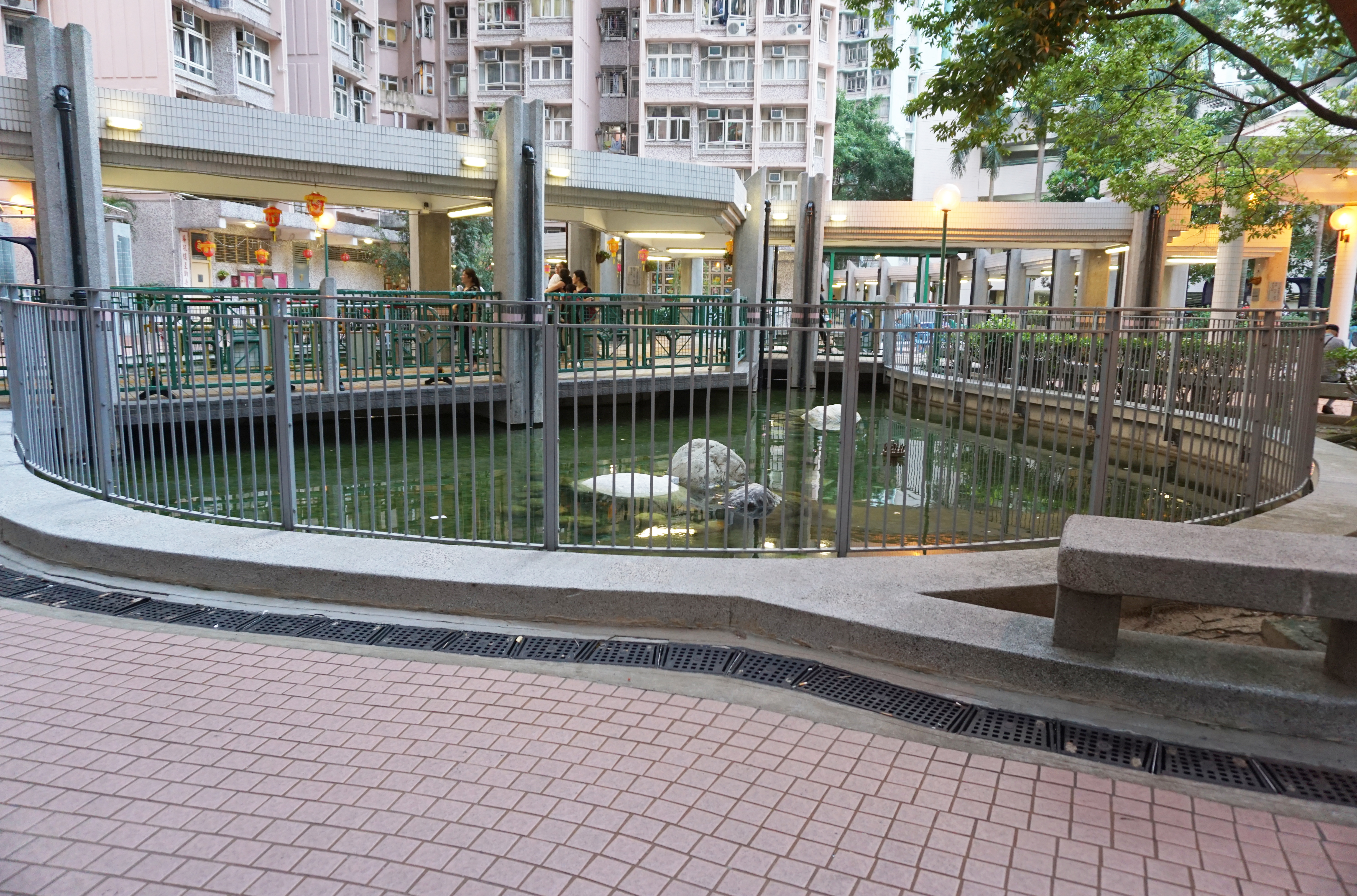 Wah Sum Estate in Fanling, Hong Kong.